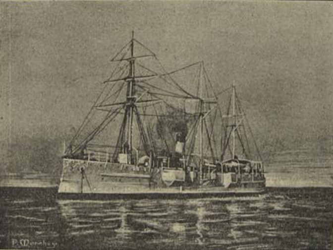 Cruiser São Rafael in O Occidente (1900)